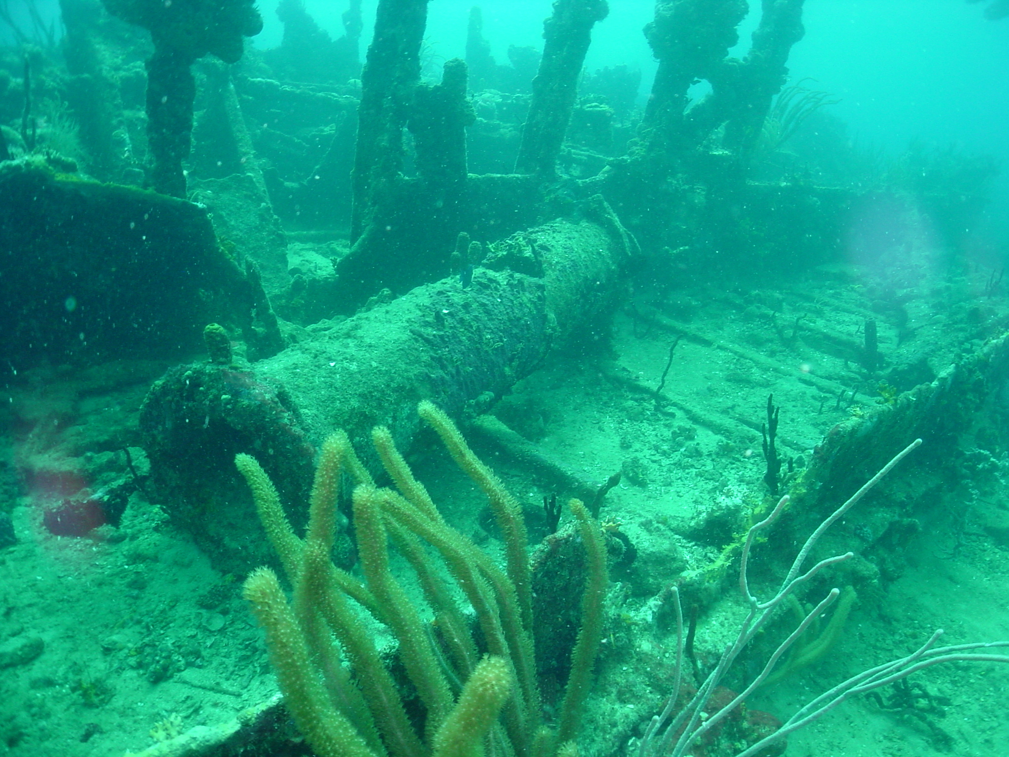 Wreck of the RMS Rhone, British Virgin Islands